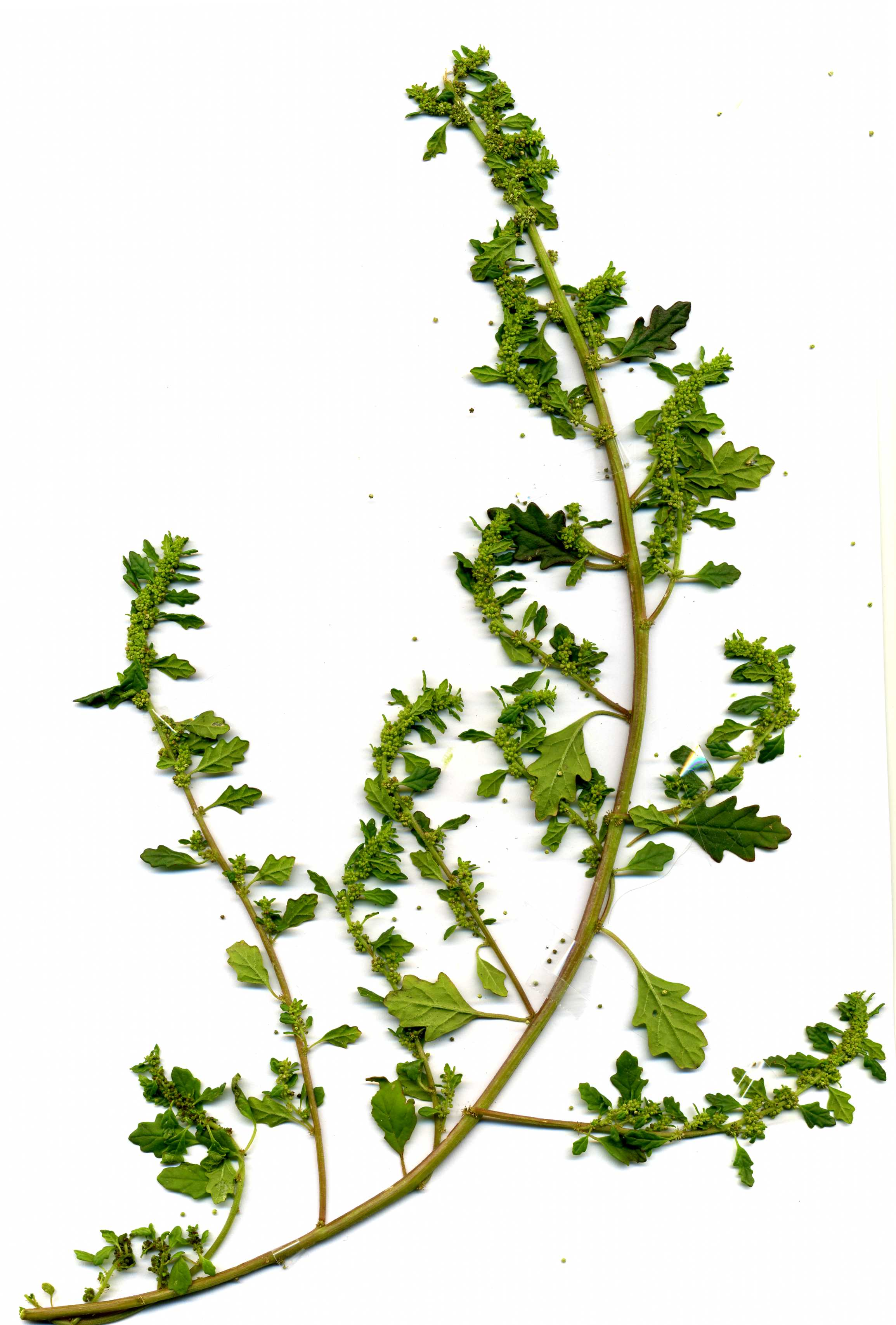 Dysphania pumilio, scanned specimen. Babenhausen (Hesse, Germany), margin of sandy habitat "In den Rödern".